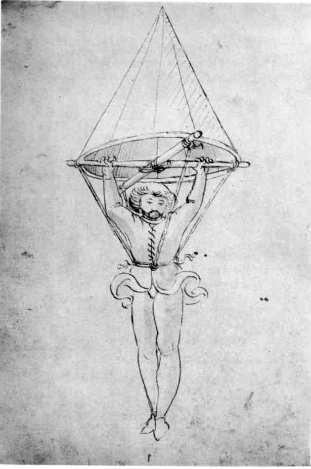 First known depiction of a parachute. The drawing (British Library Additional Manuscript 34,113, folio 200v.) comes from Italy and is dated at the 1470s, thus slightly preceding Leonardo da Vinci's parachute designs. Author unknown.